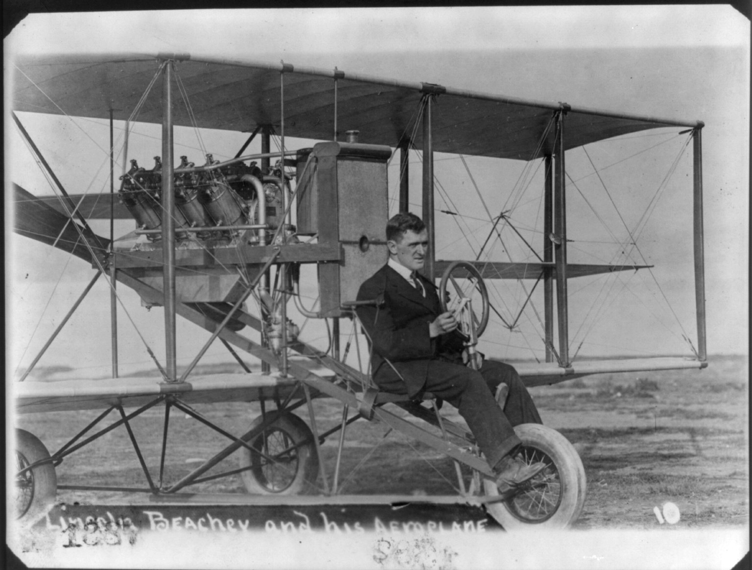 Title: Lincoln Beachey Abstract/medium: 1 photographic print.